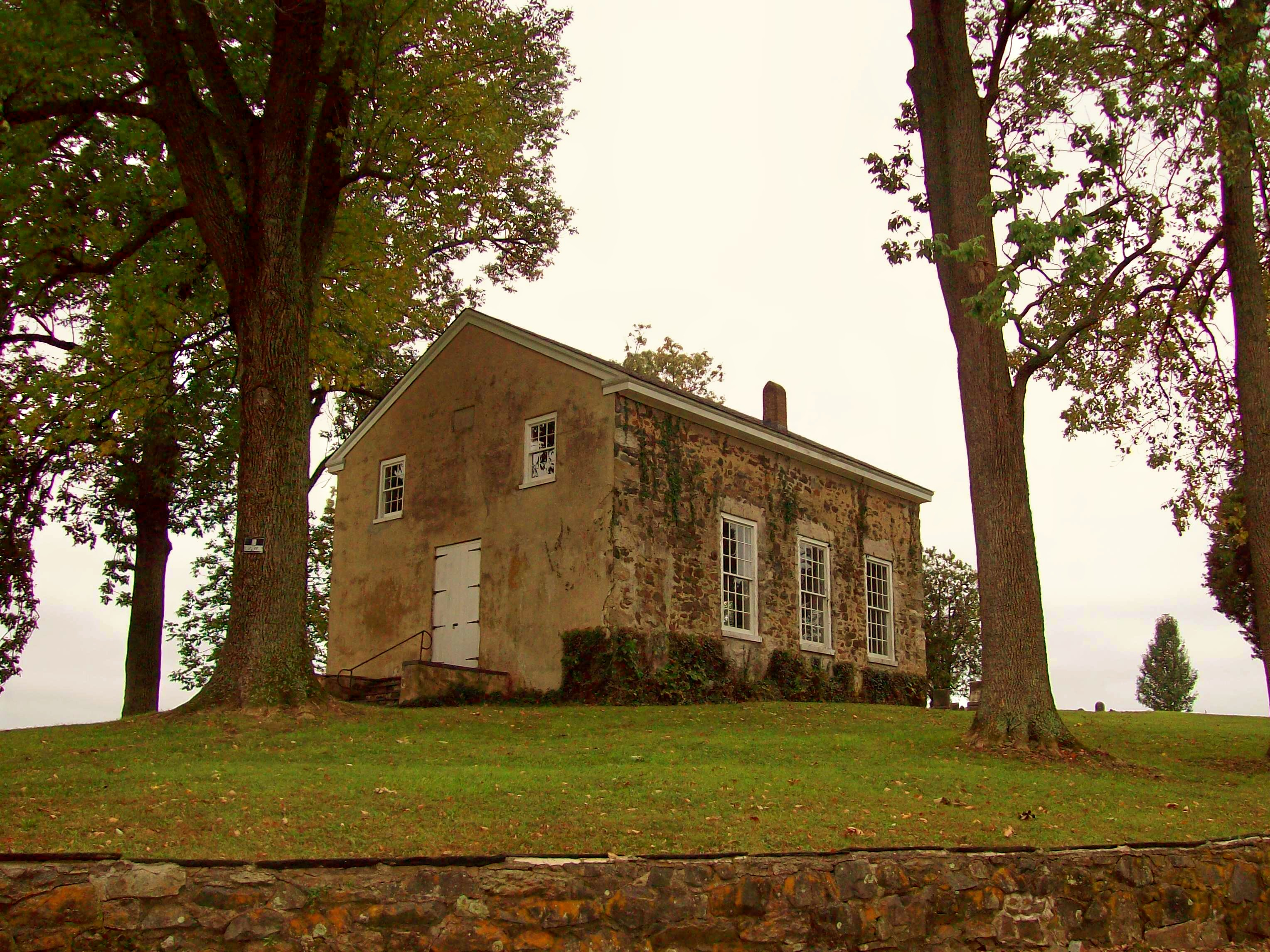 A scenic picture of the Watters Meeting House, taken Sunday, October 2, 2011.